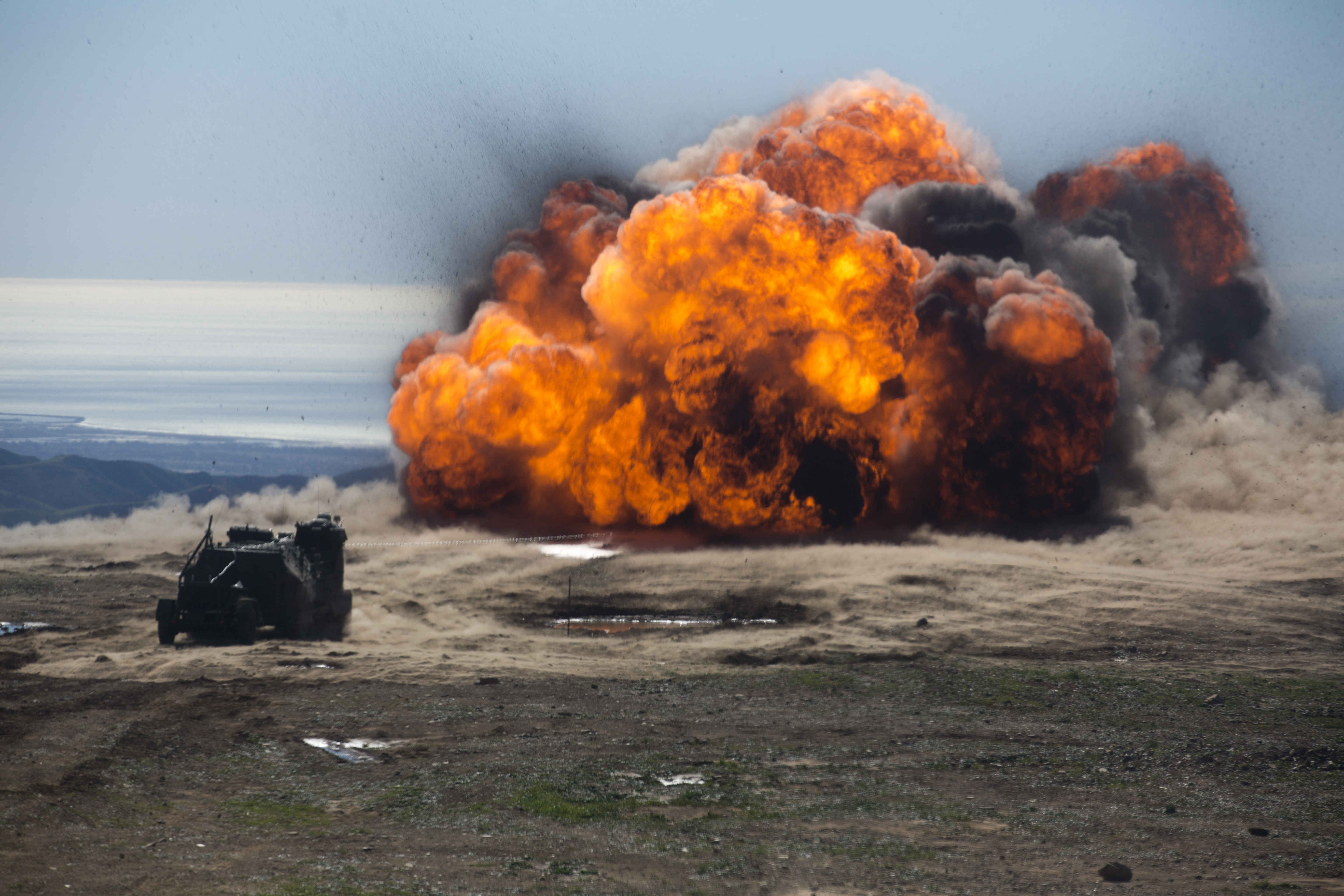 U.S. Marines and Japan Ground Self-Defense Force soldiers detonate a Mine Clearing Line Charge (MCLC) to clear an obstacle, during a breaching training event, aboard Marine Corps Base Camp Pendleton, Calif., Feb. 4, 2016. The MCLC contains 1,750 lbs of C4 explosives and is launched into a forward area by a rocket to clear a path. This training was a part of Exercise Iron Fist, an annual, bilateral training exercise conducted by the USMC and JGSDF to refine their combined amphibious operational capabilities. (Photo by: Cpl. Garrett White/ Released) Unit: 11th Marine Expeditionary Unit